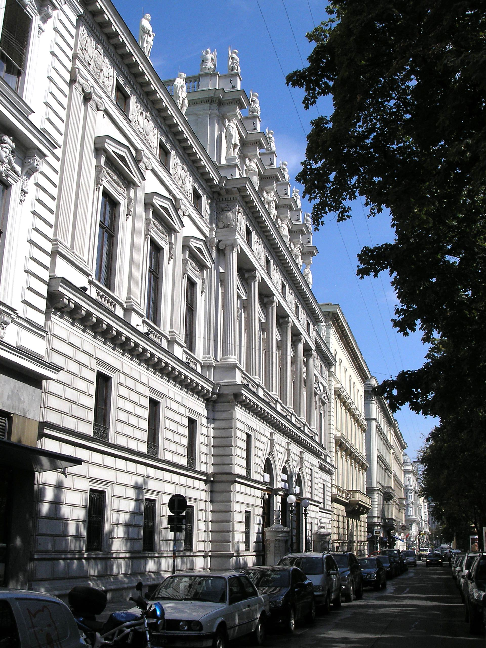 The Palais Erzherzog Wilhelm in Vienna, at the Ringstraße. Constructed from 1864 to 1868 for Archduke Wilhelm Franz Karl of Austria by Baron Theophil von Hansen in the Neo-renaissance style.